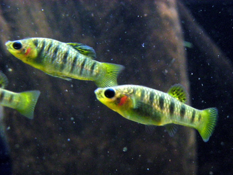 Male (top) and female of Humpbacked limia (Limia nigrofasciata, also called Black-barred limia)